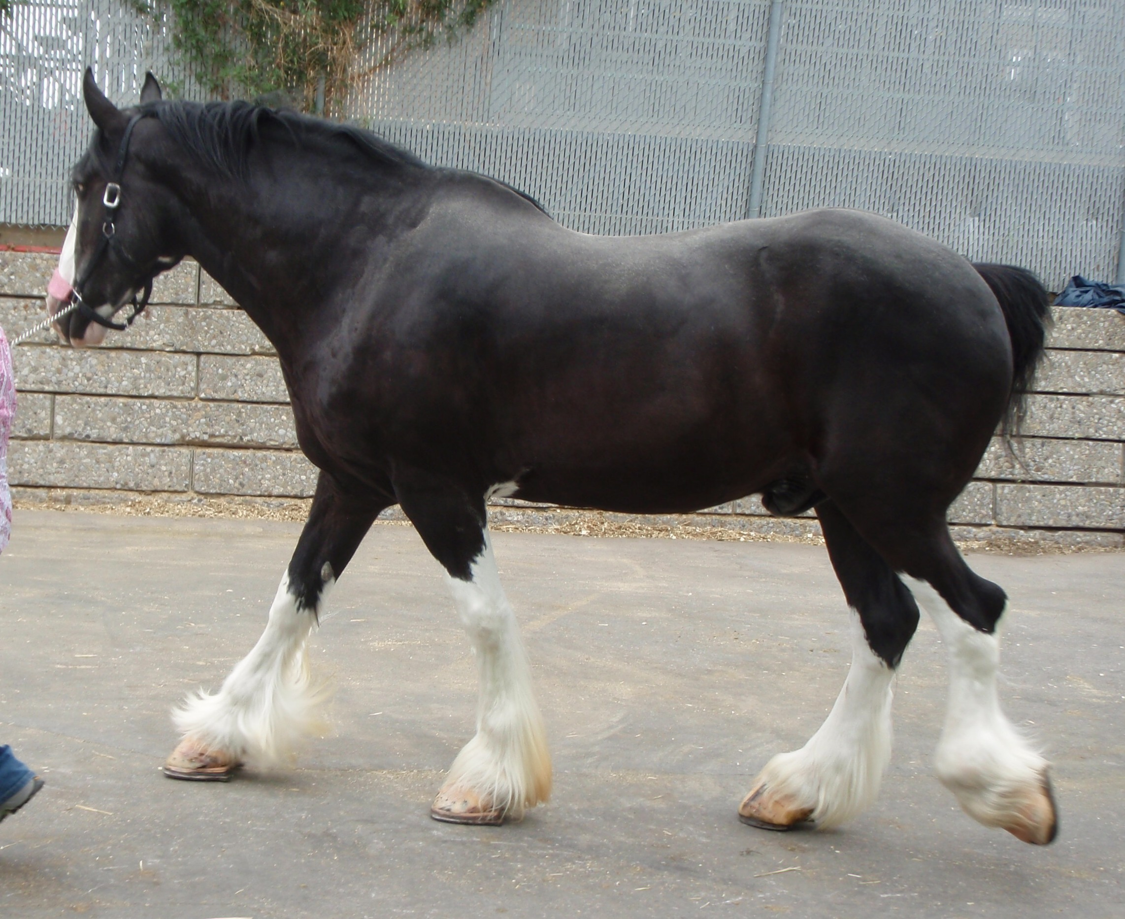 A draft horse from Belgium in Stampede Park at the Calgary Stampede.